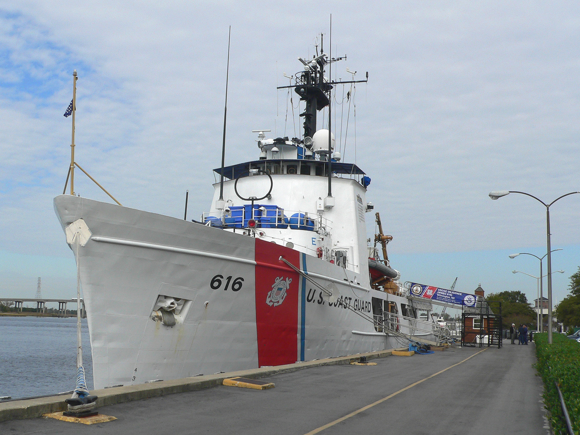 The USCGC Diligence (WMEC-616) is a Reliance-class Medium Endurance cutter, shown here docked at her home port in Wilmington, NC, USA. Photo taken with a Panasonic Lumix DMC-FZ20 in New Hanover County, NC, USA.